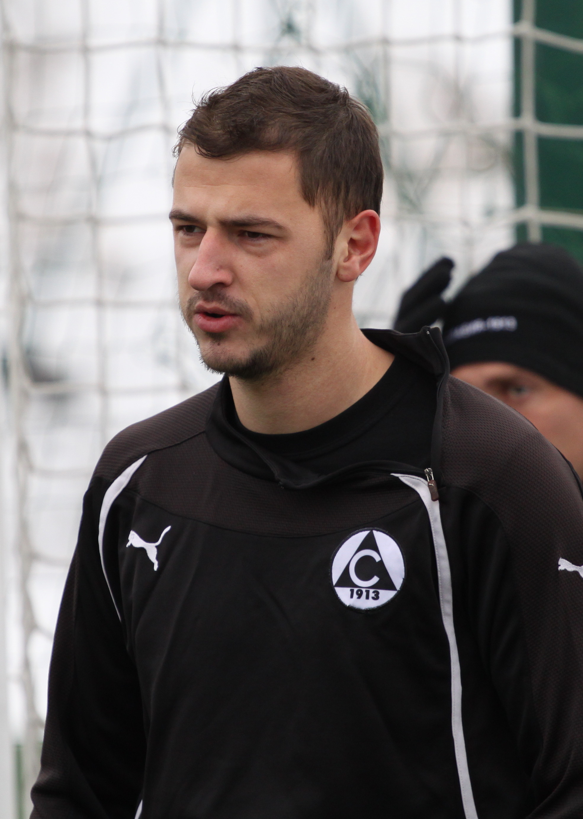 Daniel Peev - Bulgarian football player, he played for Lokomotiv Sofia